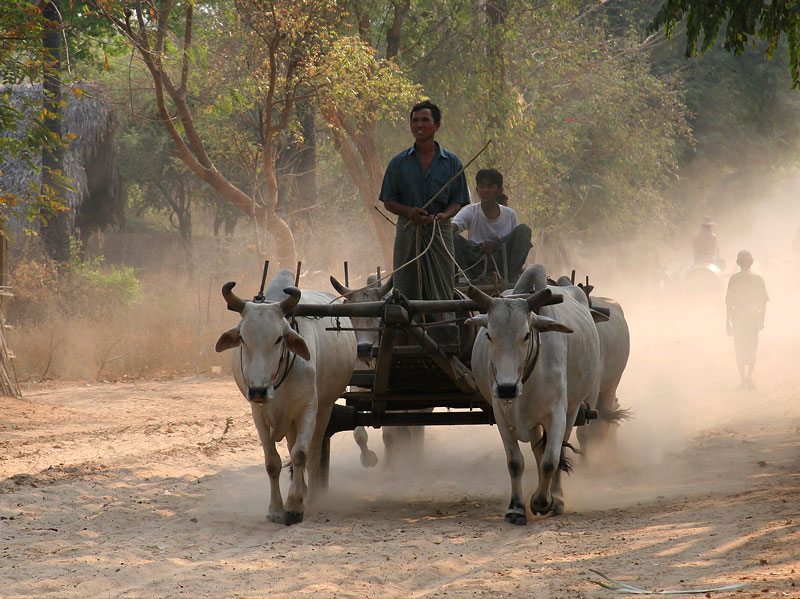 As a result of increased population, shifting cultivation, fuelwood extraction and other human activities, the dry zone in Myanmar now expands in an area of about 55,000 square kilometers situated in the lower Sagaing, Mandalay and Magway Division. About 34% of the Myanmar population is living there. When traversing this region one could hardly believe being in south-east asia, more well known for its green rice fields than for its dusty arid areas. Water is very scarce and people are spending a big part of their time and energy looking for water where they can find it. Some make kilometers by foot or with bullock carts rising clouds of dust to fill recipients at the closest well. Ethnic Bamar men in Bagan, Myanmar